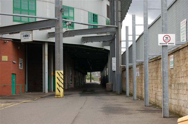 Janefield Street When Celtic Park was redeveloped, the North Stand had to be built over Janefield Street and access had to be maintained, although the gates are closed at night.